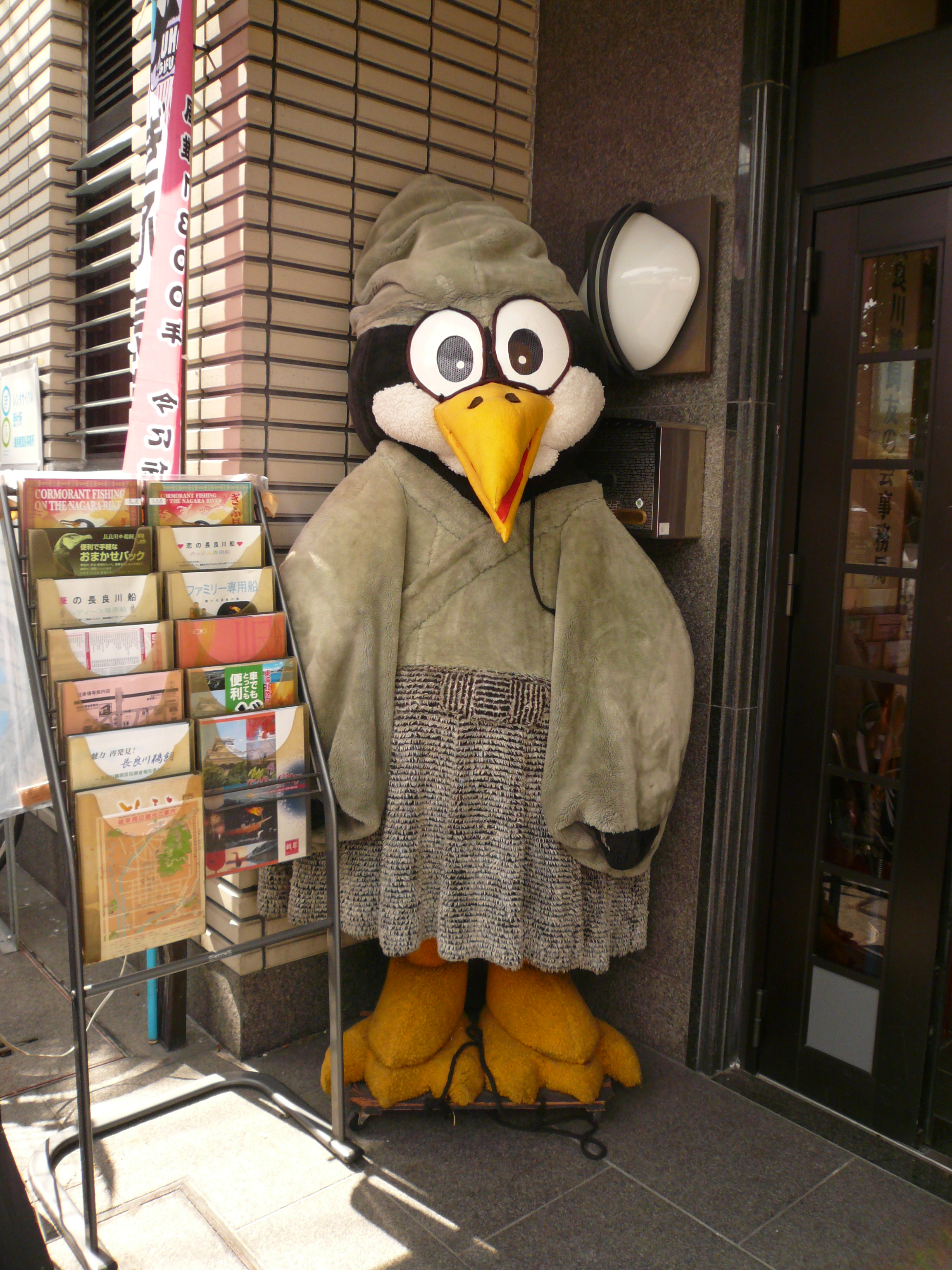 "U-tan" Mascot（Cormorant Fishing on the Nagara River）, Gifu, Gifu, Japan